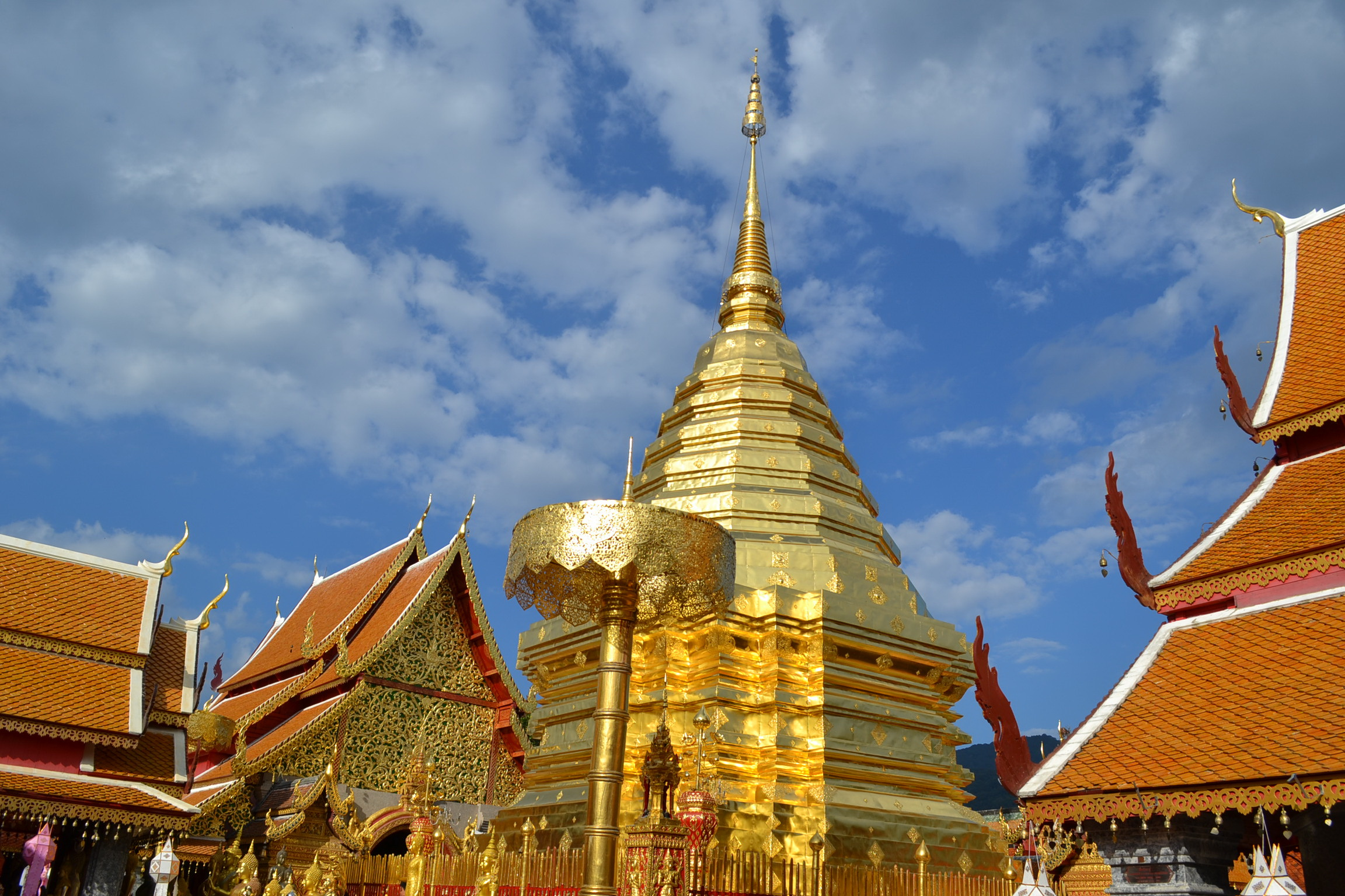 Wat Phrathat Doi Suthep, Chiang Mai, Thailand.Location: Wat Phrathat Doi Suthep Chiang Mai.